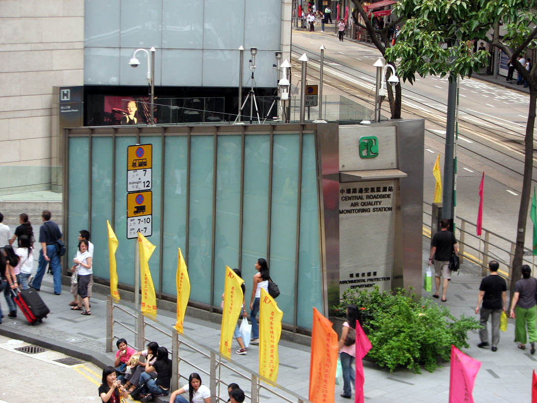 Central Roadside Air Quality Monitoring Station, Central, Hong Kong